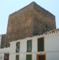 Torreón s.XI (Begijar, Jaén)